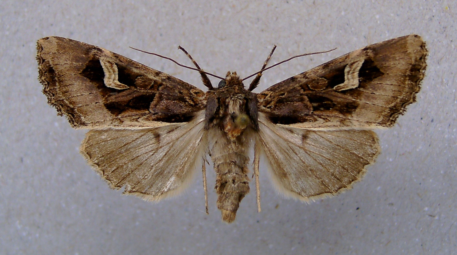 Trigonophora flammea, Malcesine, Italy